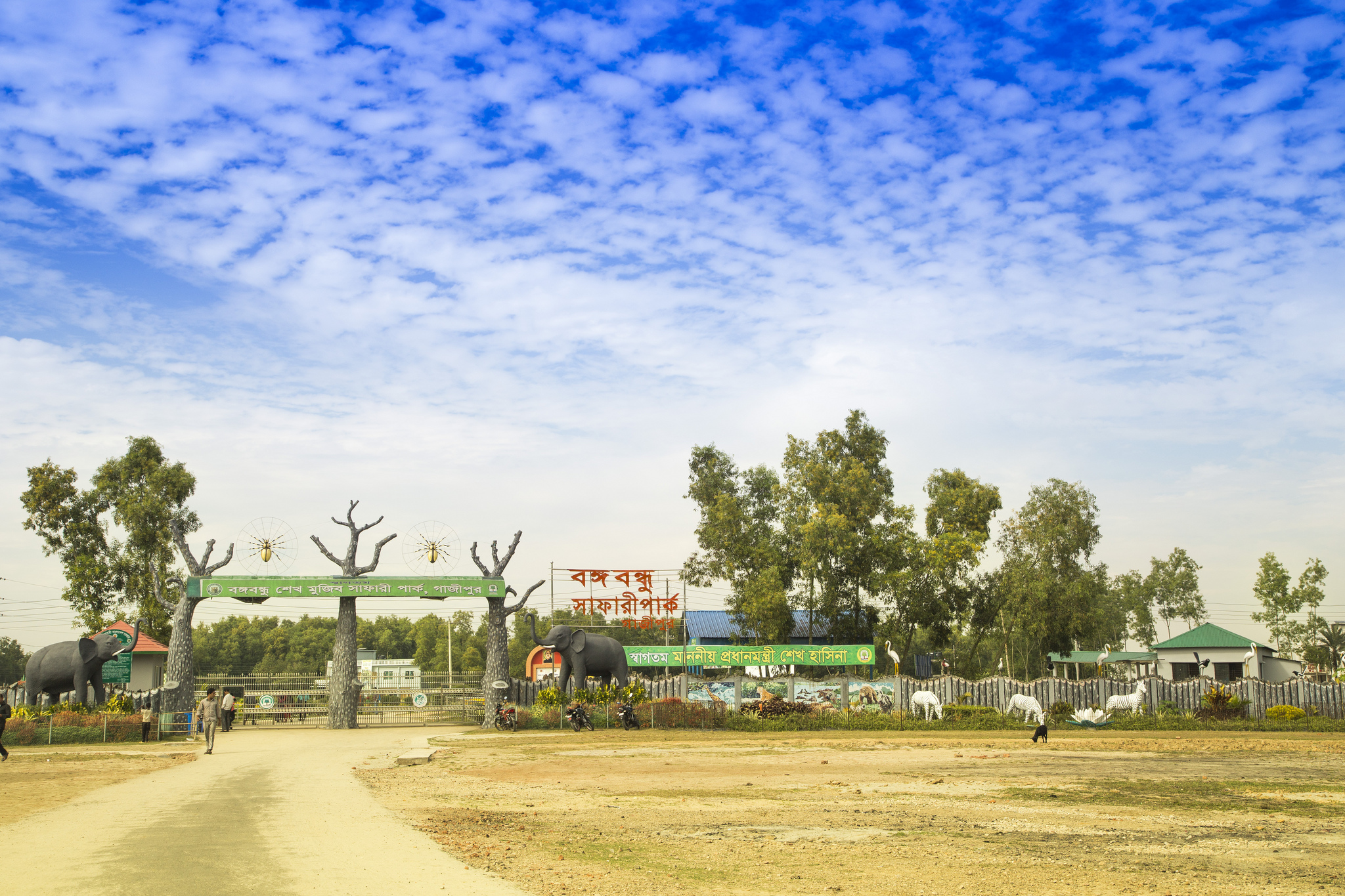 Bangabondhu Safari Park, Gazipur, Bangladesh